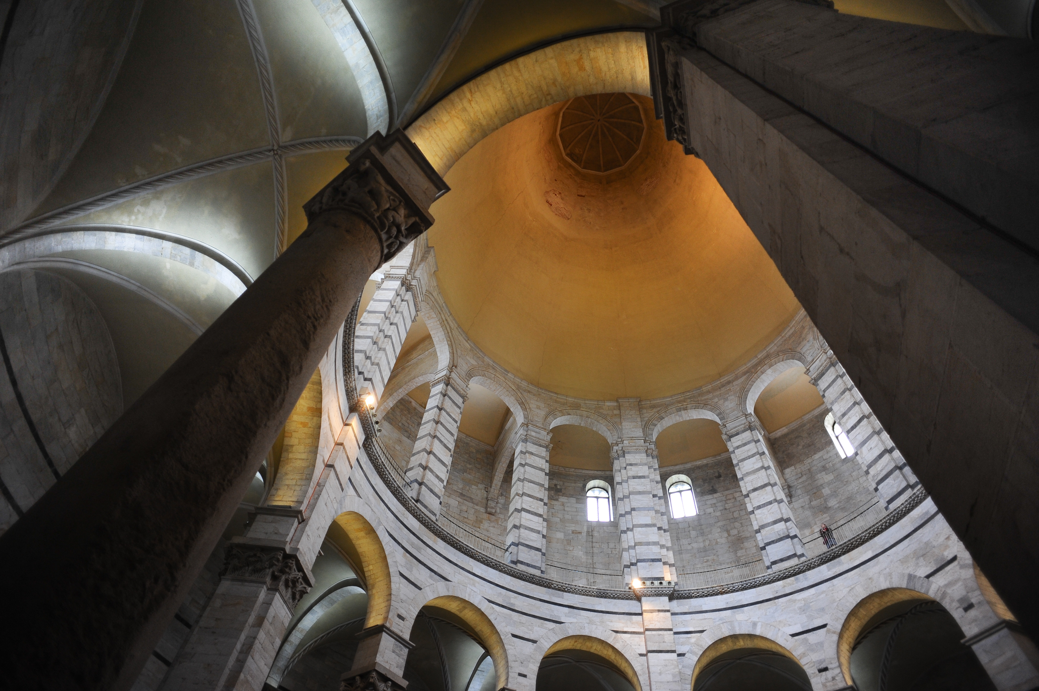 Interior of the Baptistry of St. John dome, Piazza dei Miracoli ("Square of Miracles"), Pisa, Tuscany, Central Italy.